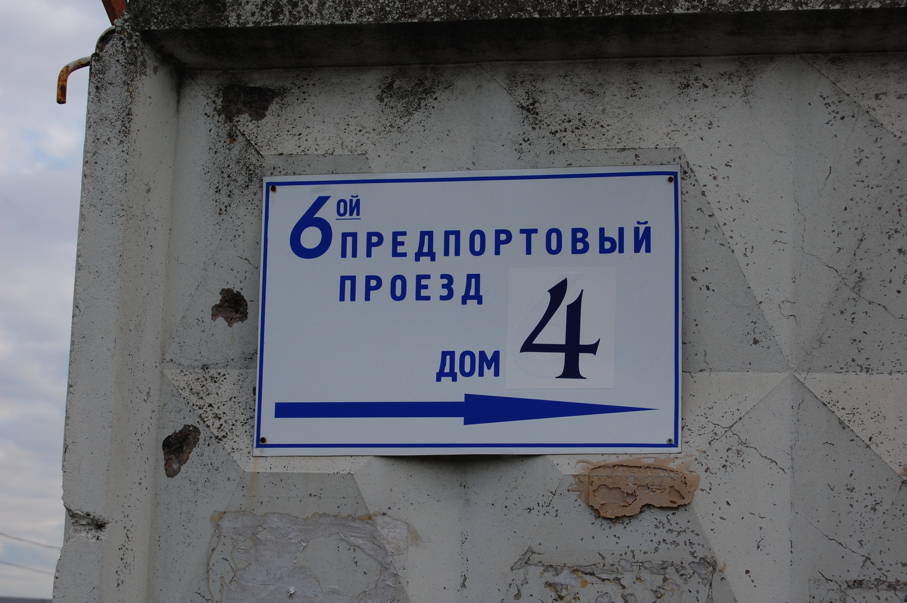 6th Predportovy Lane (Saint Petersburg), shield on the fence